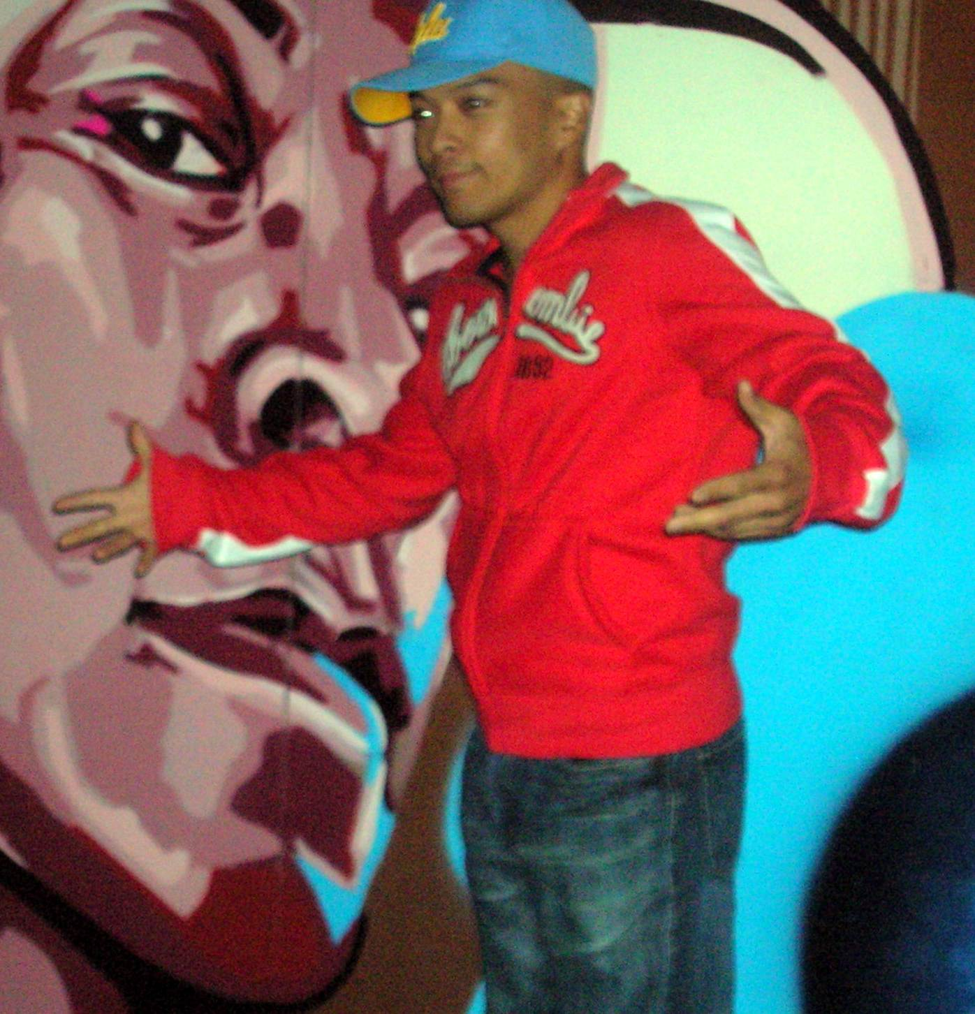 Richard Quitevis, more known asDJ Q-Bert, before acting live at the Bilbao Urban Musikaldia, at Vista Alegre bullring.